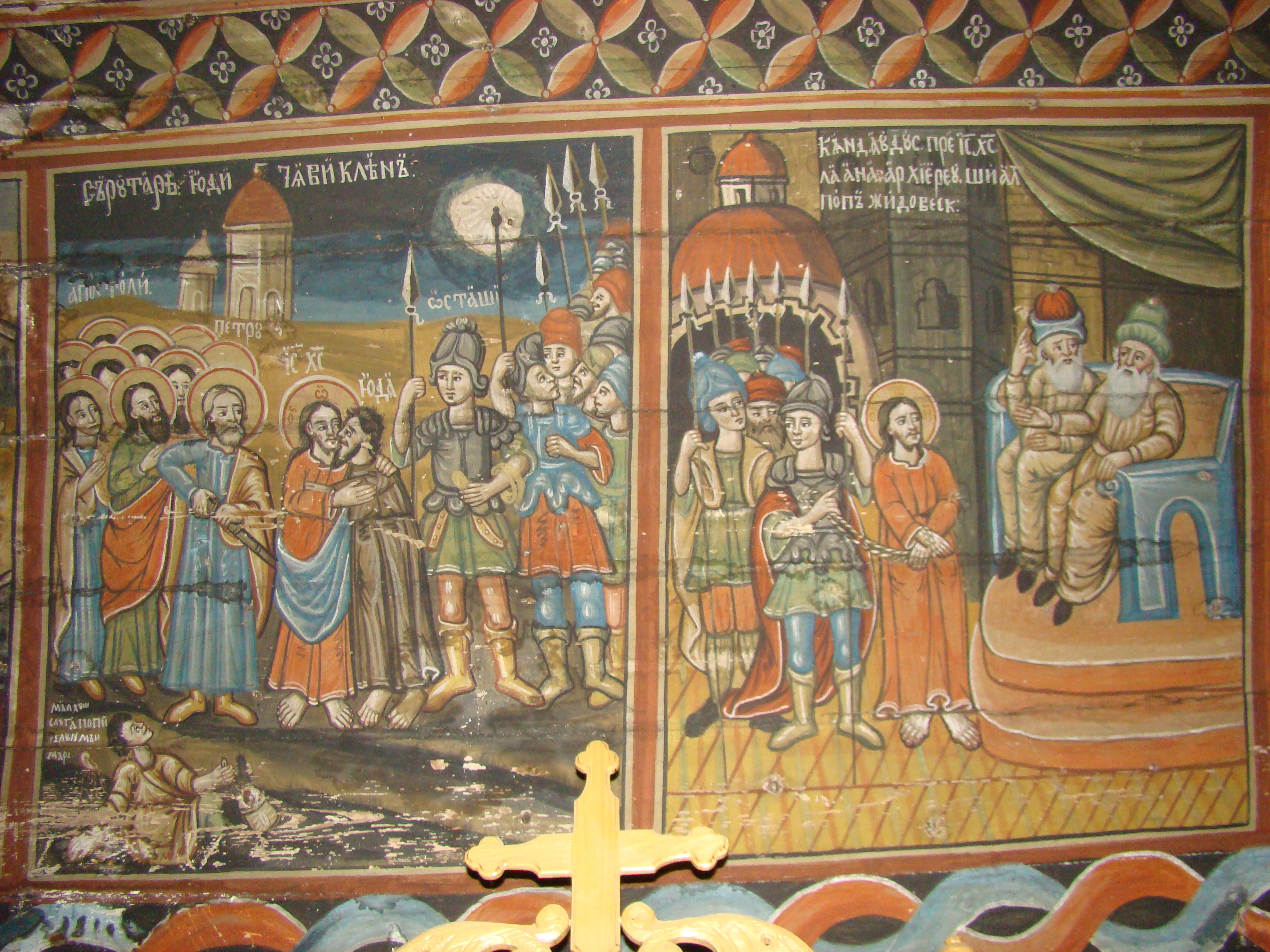 Wooden church in Roșia Nouă, Arad county, Romania